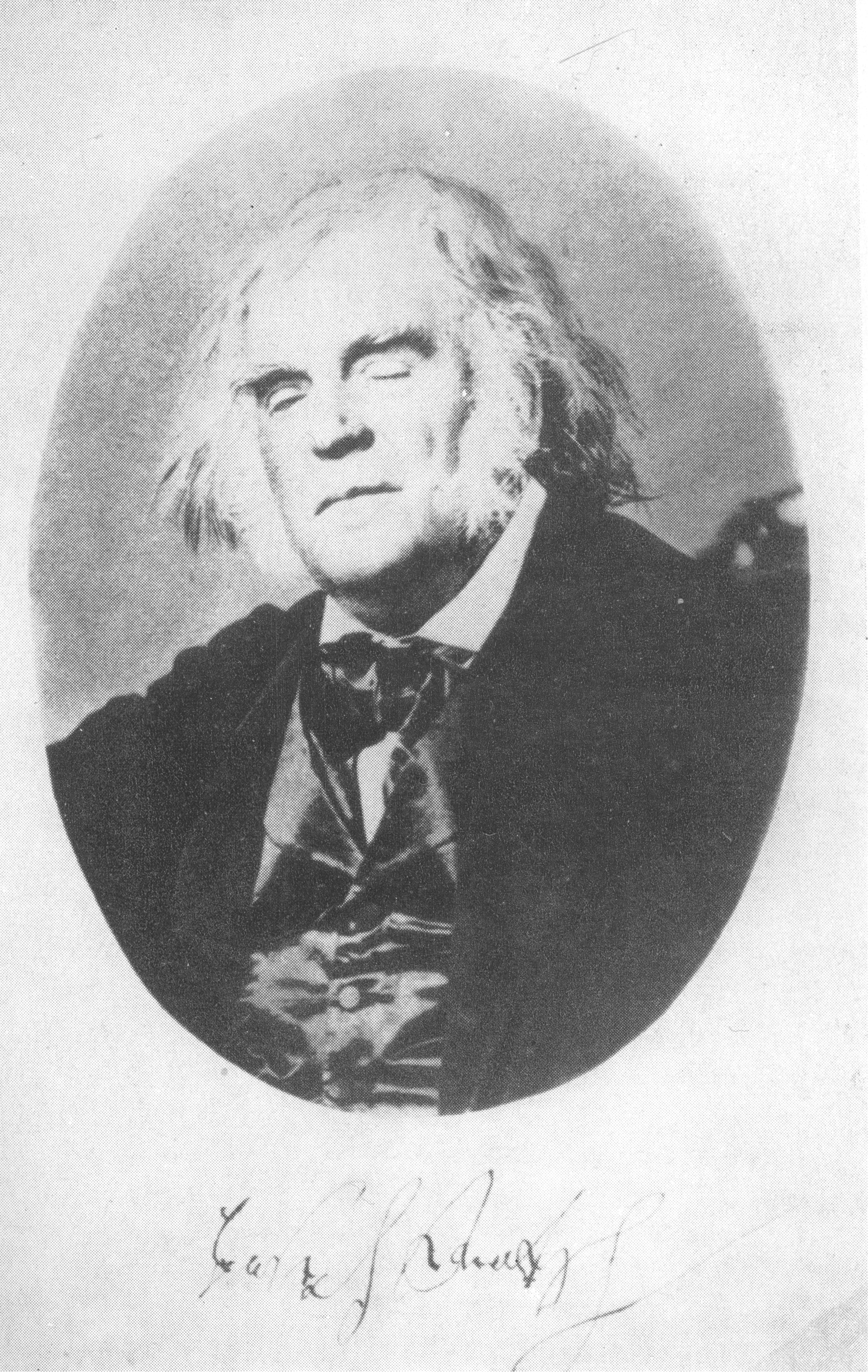 Prague music teacher Joseph Proksch (1794-1864). A photograph.